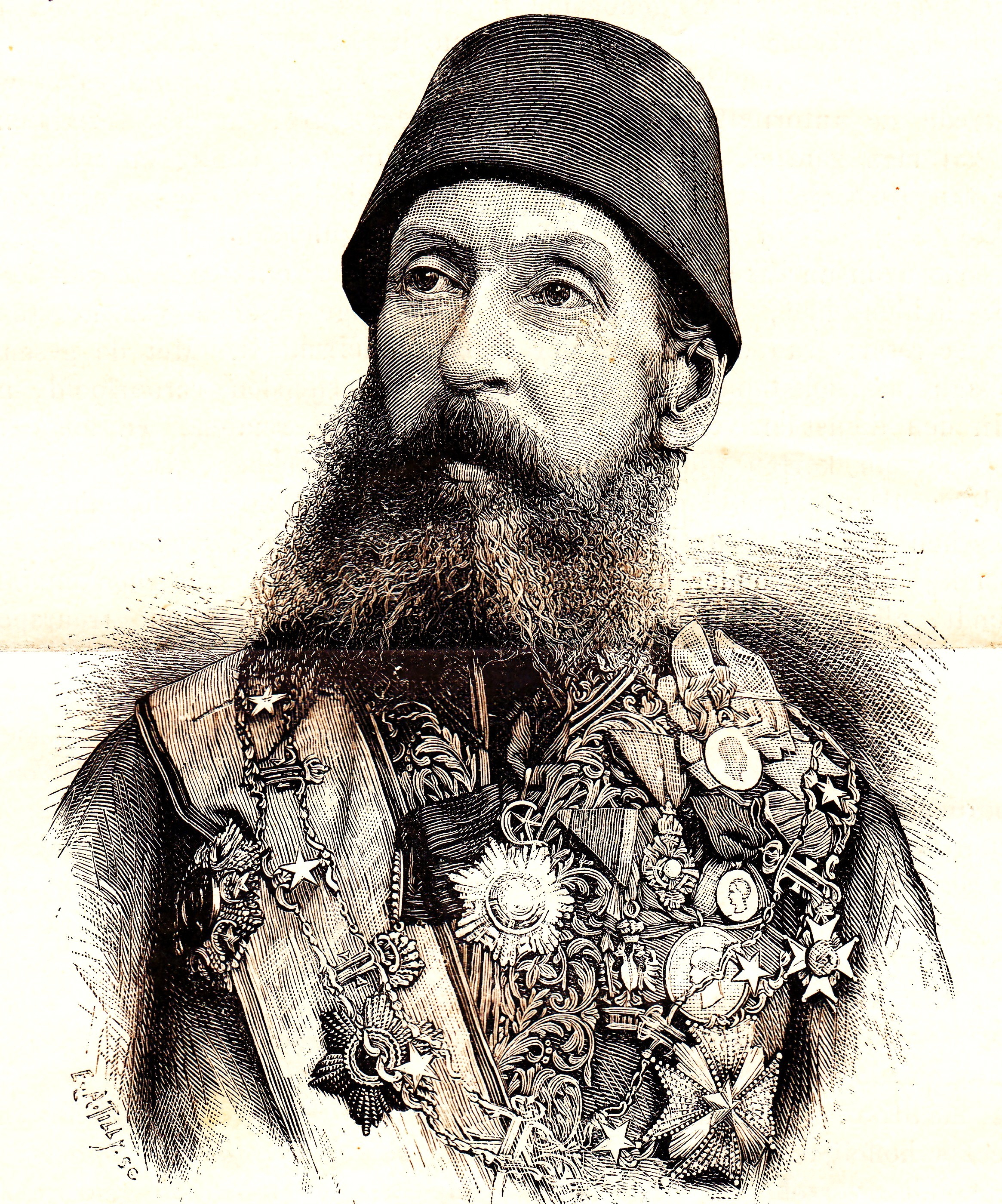 Murad Ufendi